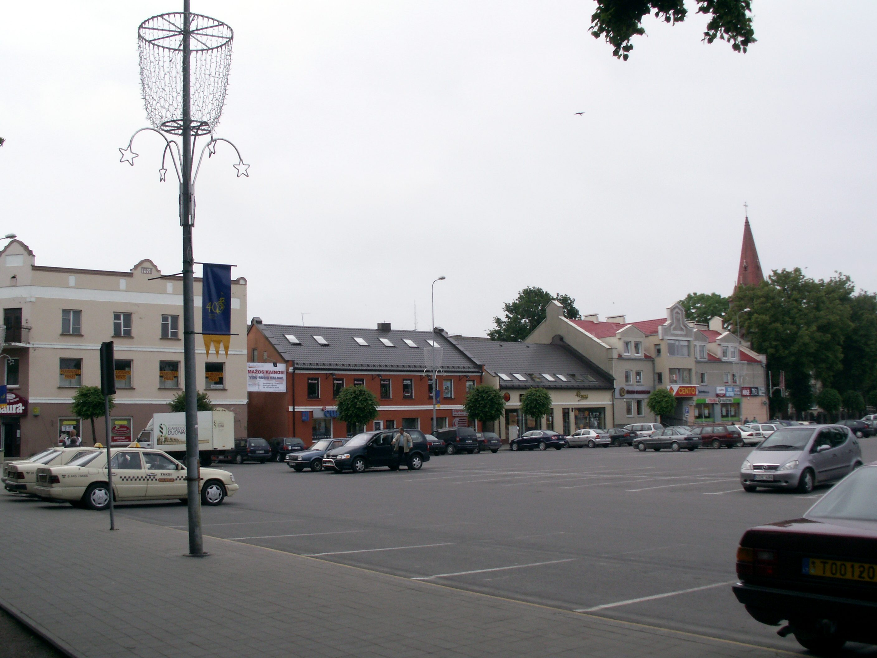 Kretinga, Lithuania